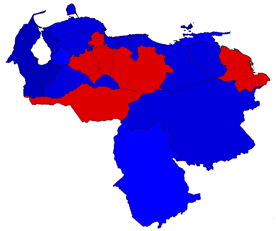 Results of the 2015 parliamentary elections in Venezuela by state (List Vote).